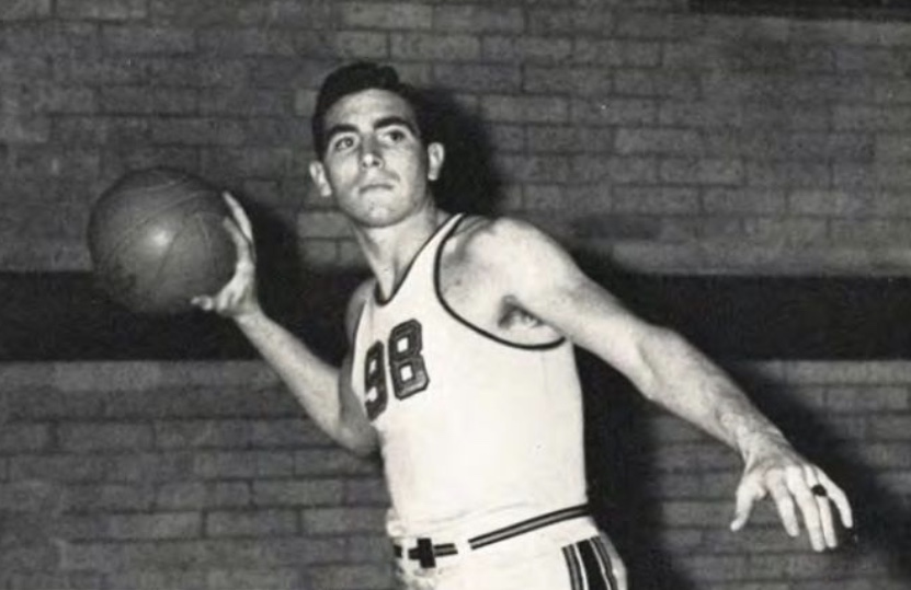 American college basketball player Mac Otten of Bowling Green State University from the 1949 student yearbook - the Key